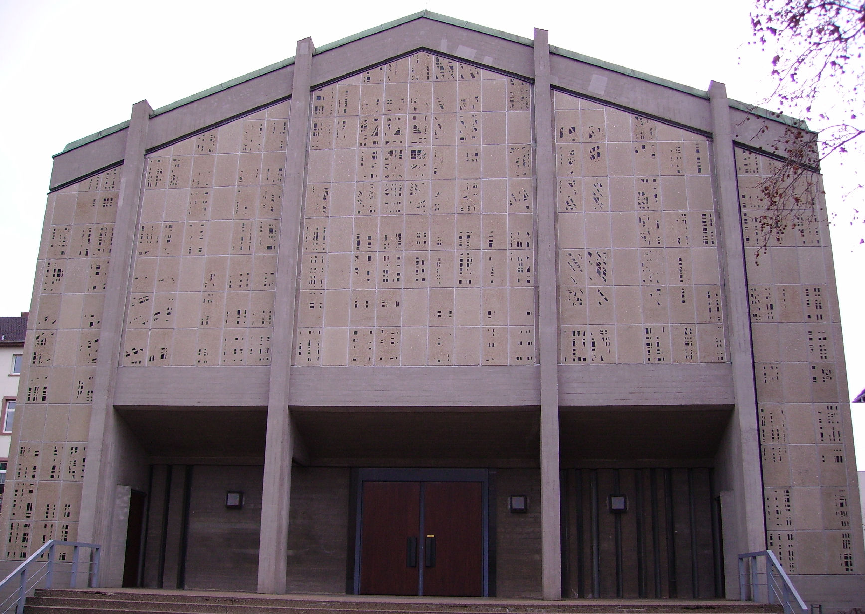 church of Mannheim, Germany